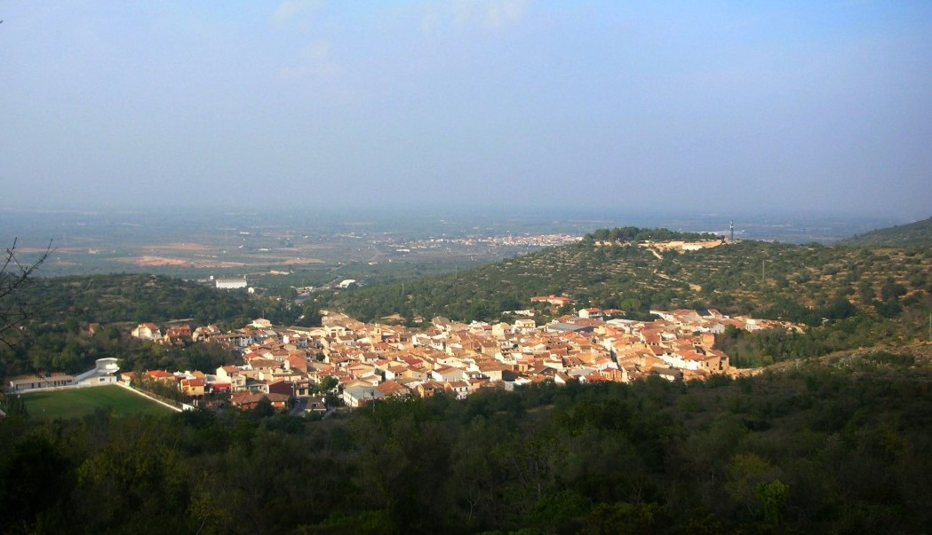 Godall village, Montsia, Catalonia